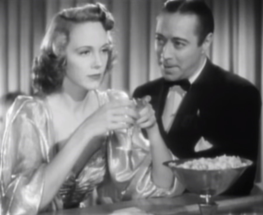 Claire Dood & Bernard Nedell in Slightly Honorable - cropped screenshot